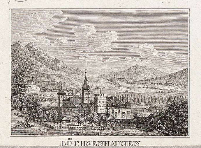 Map of Imperial and Royal Provincial Capital Innsbruck and surroundings: detail Büchsenhausen castle